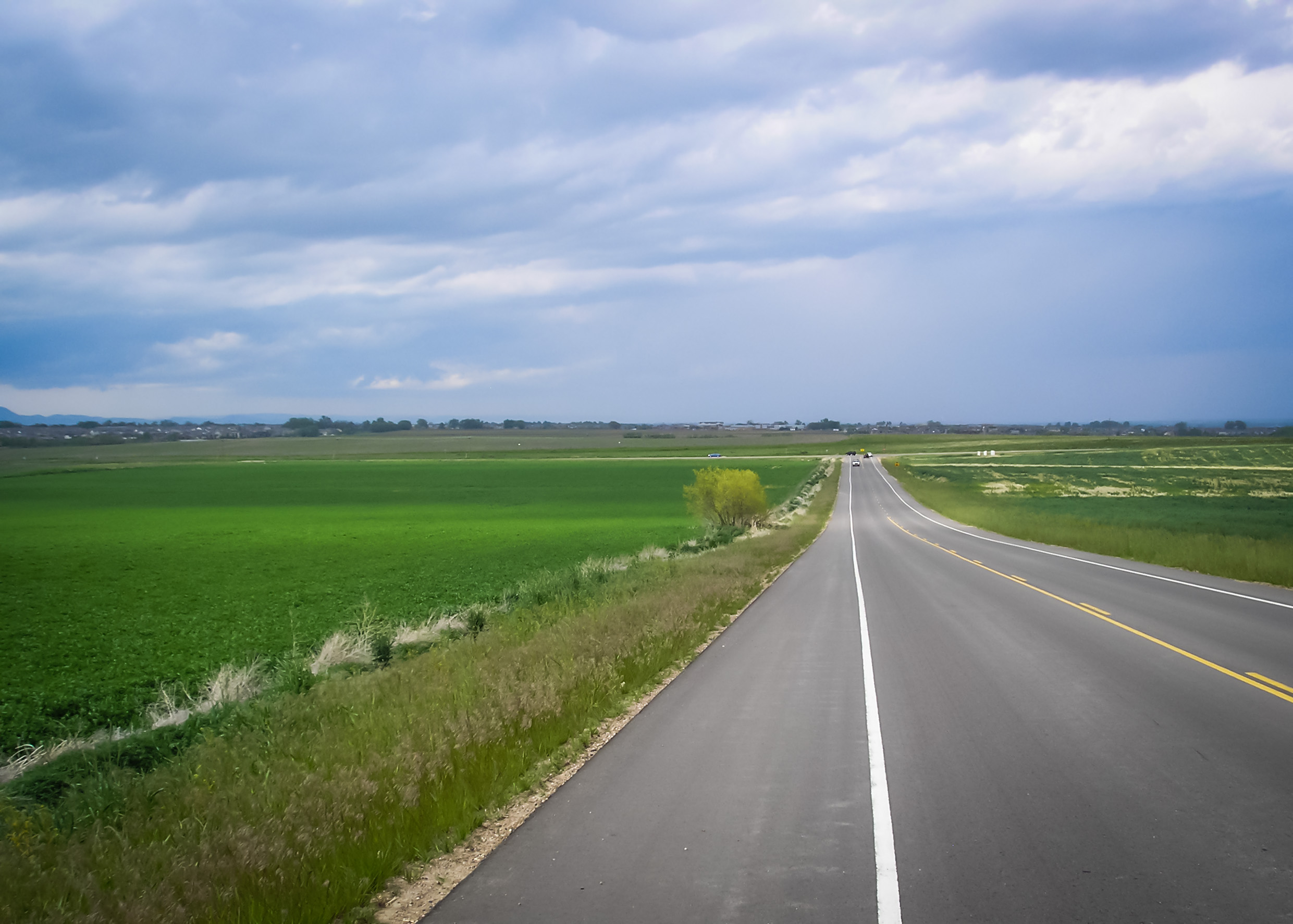 Rural Weld County near the Front Range, Colorado, USA.